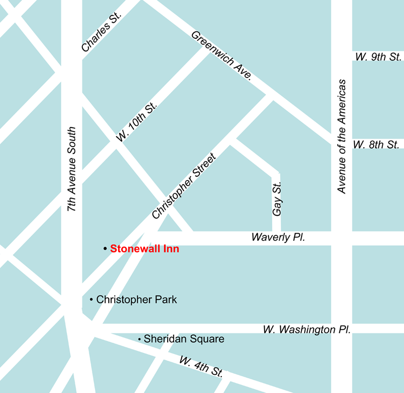 The location of the Stonewall Inn in Greenwich Village Source: Carter, David (2004). Stonewall: The Riots that Sparked the Gay Revolution, St. Martin's Press. ISBN 0312342691 (photo spread, p. 1)